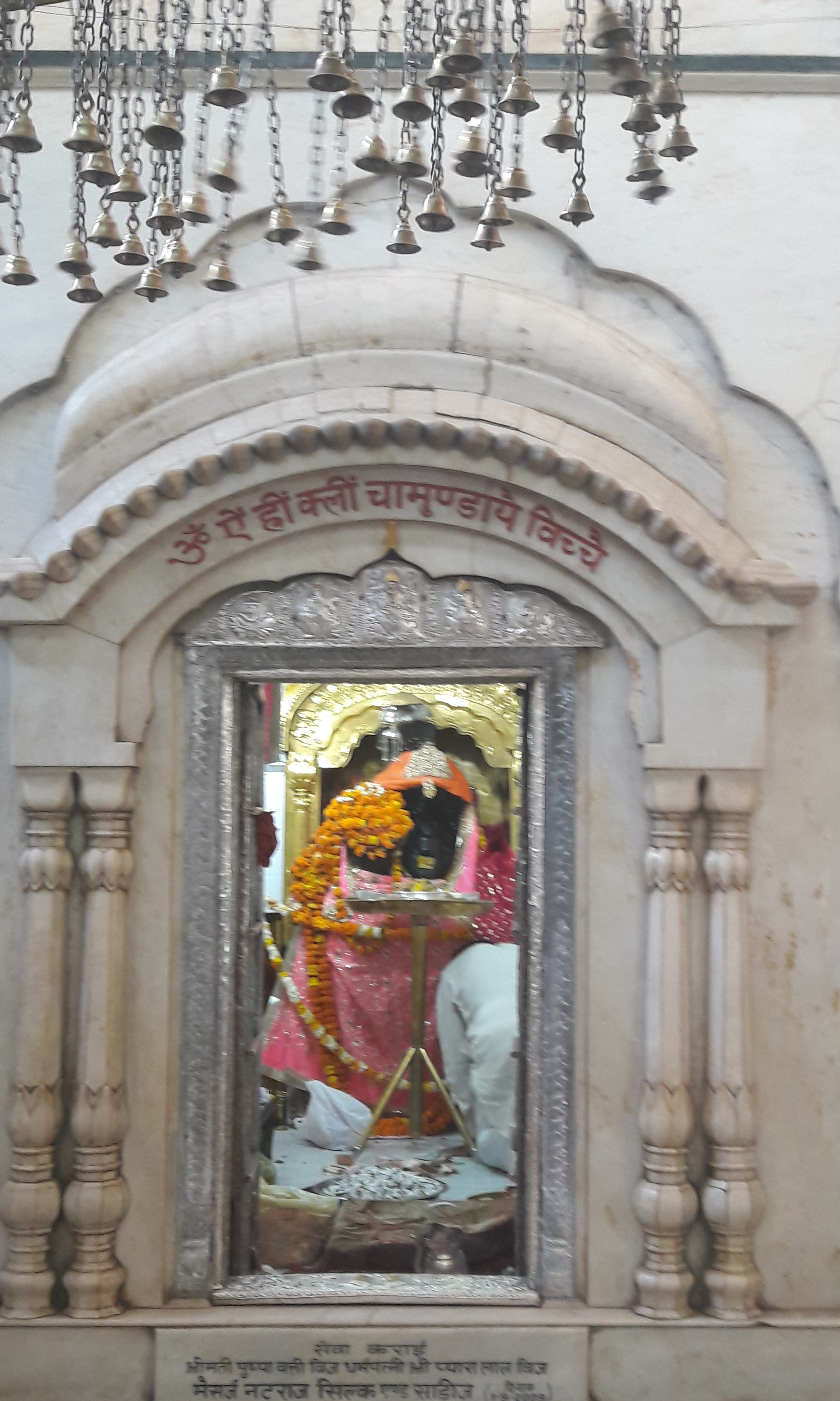 Enterance view of kali maata